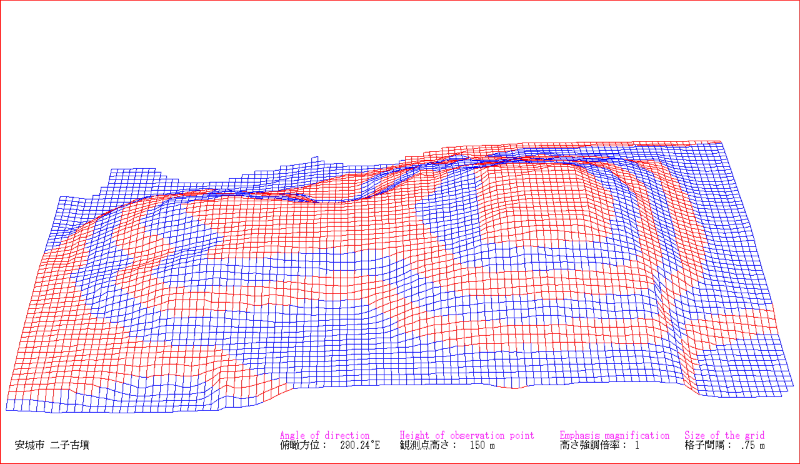 I who am a contributor drew the picture by a software which developed by myself. The survey map which I referred to depends on "「第3章 墳丘の調査」『史跡二子古墳』安城市教育委員会(2007年）". This is a drawing of present situation (not a drawing of a restored mound). The drawing depends on combination of wire frame and height eight phases classification. Perspective projection.